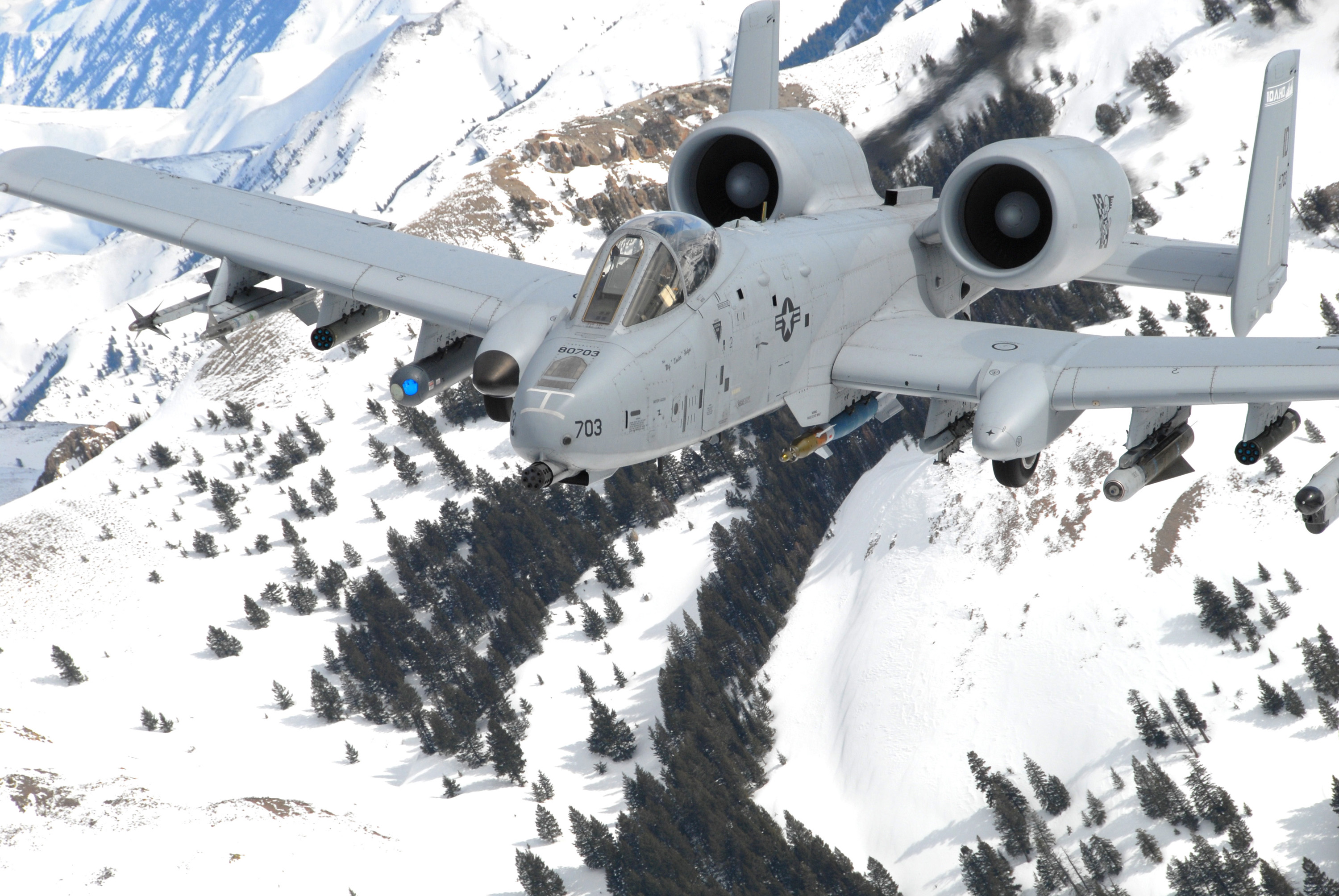 A U.S. Air Force Fairchild Republic A-10A Thunderbolt II (s/n 78-0703) from the 190th Fighter Squadron, 124th Wing, Idaho Air National Guard, flies over the Sawtooth Range, Idaho, 12 February 2008.